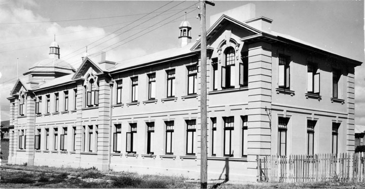 Townsville Technical College, additions. (An alternative name is Townsville State High School. Located in Stanley Street, Townsville.)